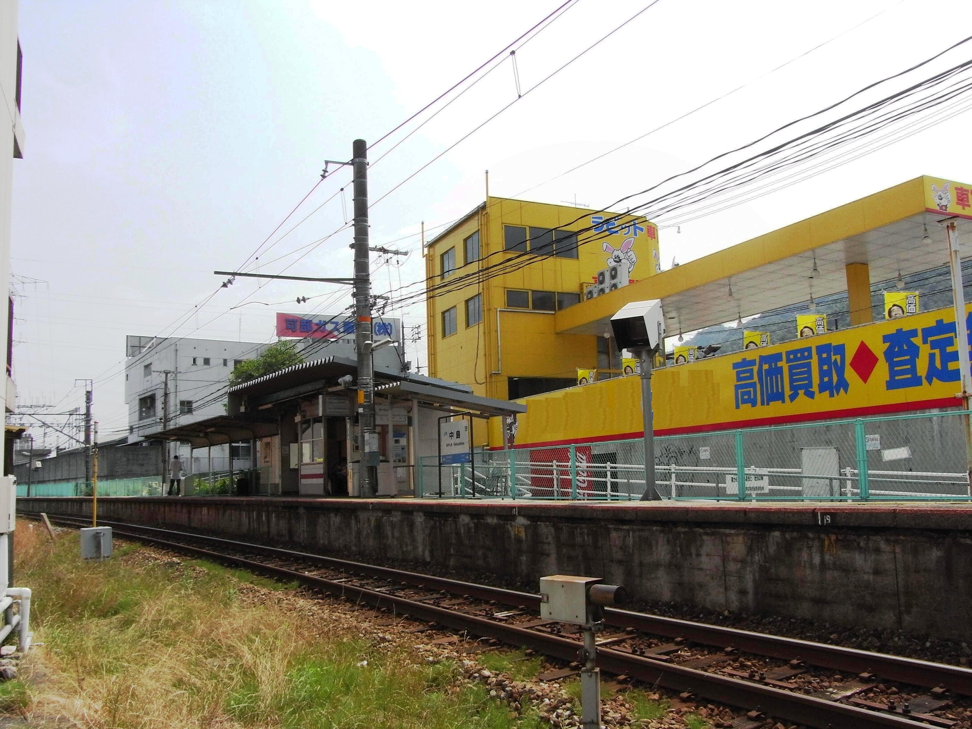 Takashima Station on the JR West Kabe Line in Hiroshima, Hiroshima Prefecture, Japan.